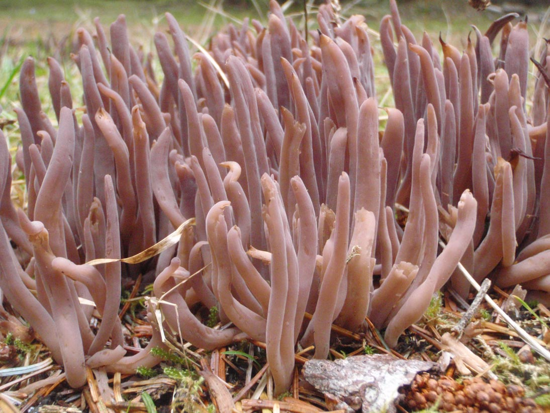 Fruit body of the coral fungus Alloclavaria purpurea (Fr.) Dentinger & D.J. McLaughlin (formerlyClavaria purpurea). Photographed in Pacific Co., Washington, USA.